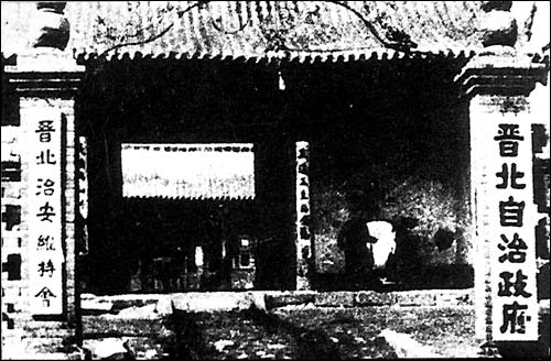 "Jin Bei Autonomous Government" Office in Datong during the Second Sino-Japanese War